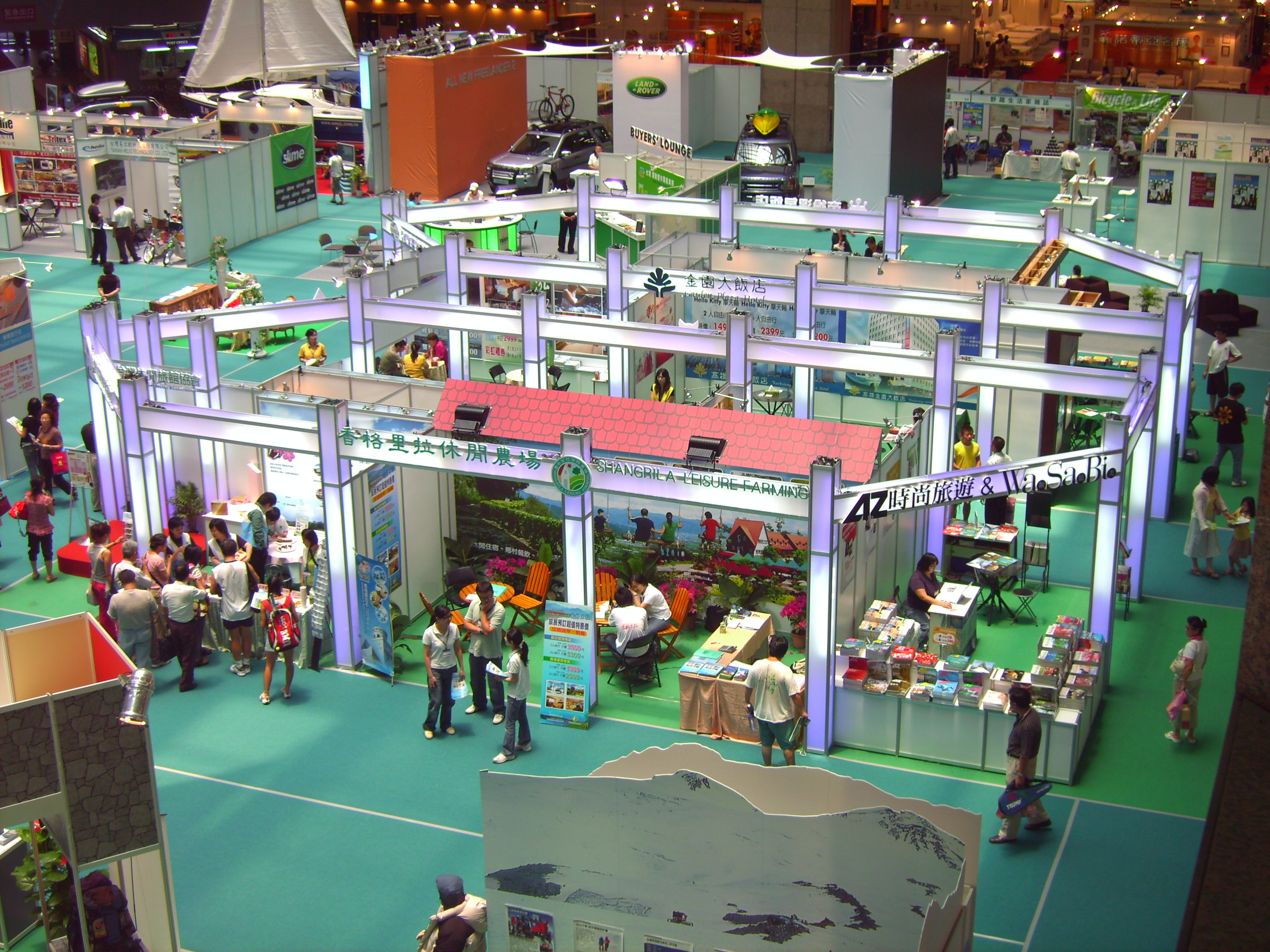 The Travel Zone of Leisure Taiwan 2007.